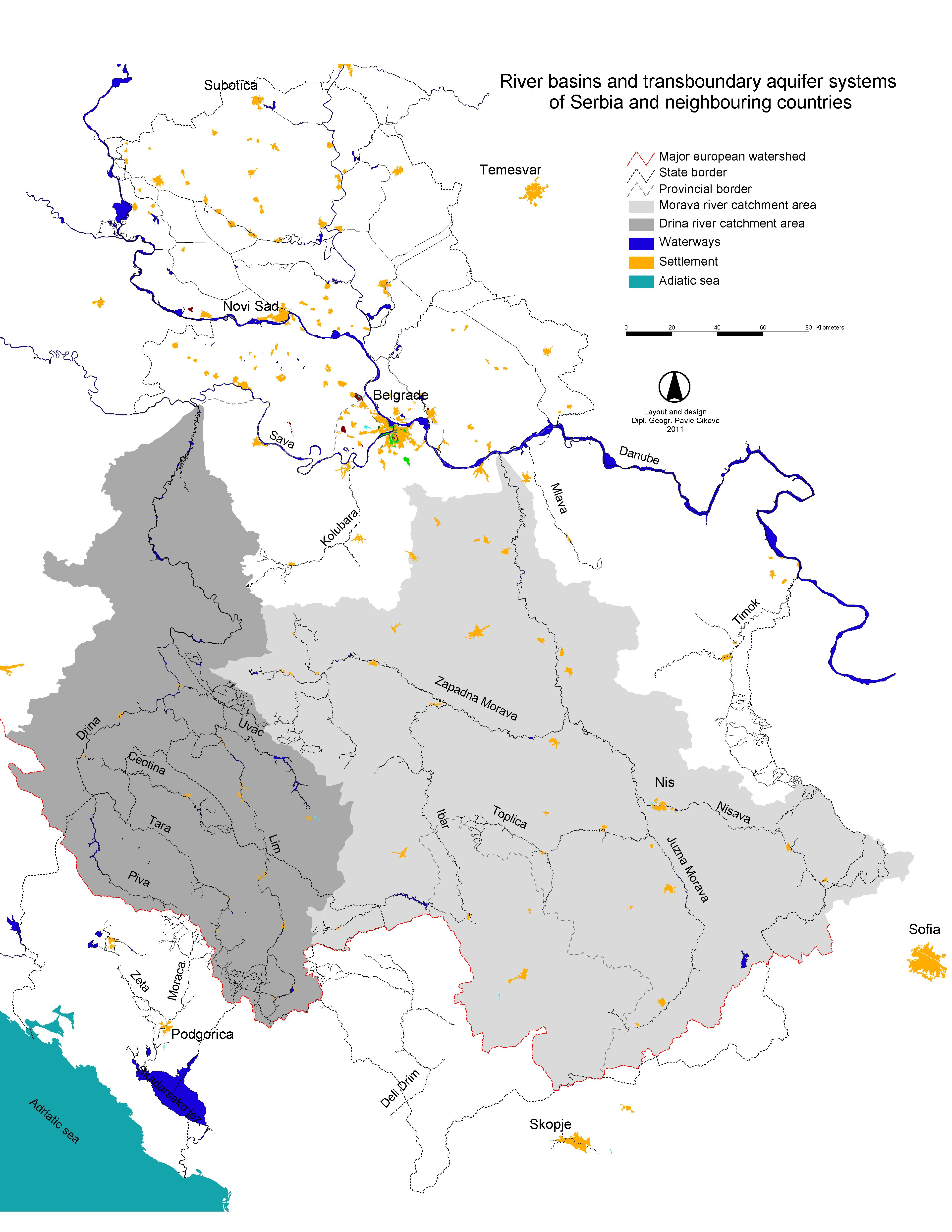 River basins and transboundary aquifers of Serbia and neighbouring countries